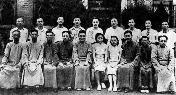 Weiyu School principal Li Chucai with faculty members